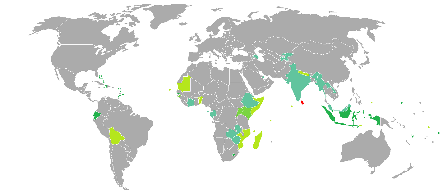 Added Laos to visa-on-arrival countries